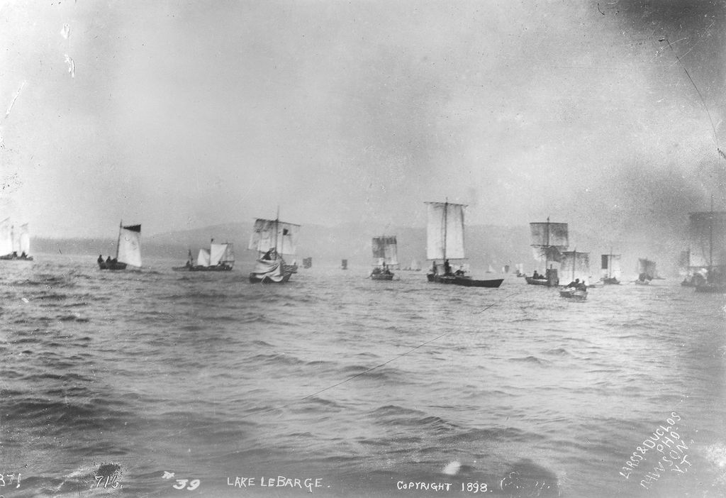 Panorama of boats and scows under sail on Lake Laberge enroute to Dawson.